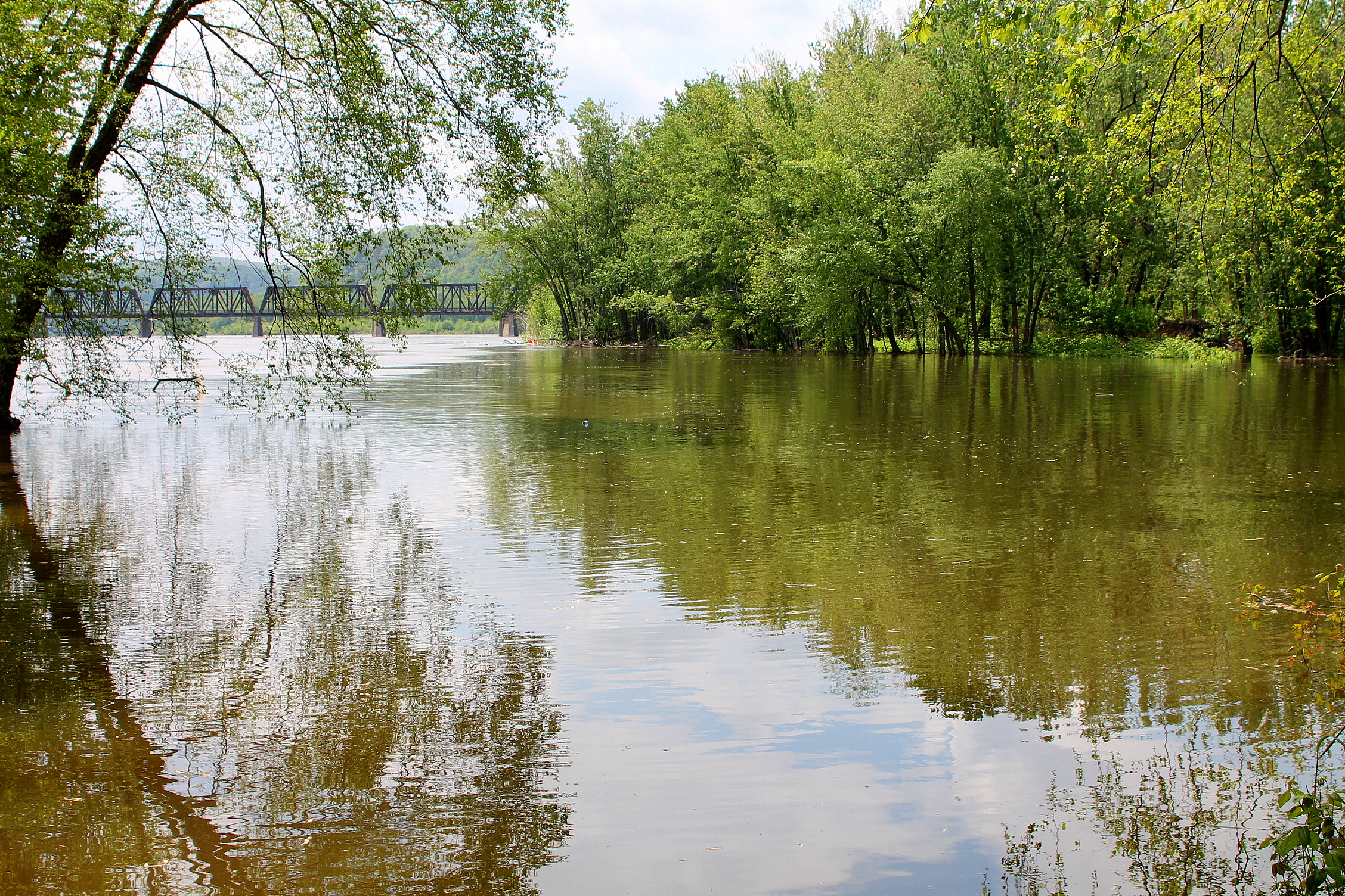 The confluence of Fishing Creek from the Bloomsburg side. The Conrail bridge can be seen in the background.